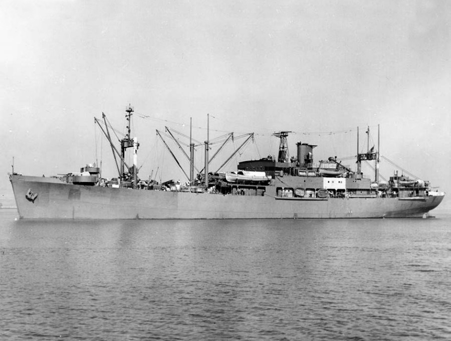 The U.S. Navy submarine tender USS Otus (AS-20) off the Mare Island Naval Shipyard, California (USA), on 15 January 1943, after completing the full conversion to a submarine tender there. Among other modifications, the following modifications are visible: the extension of the superstructure forward, the addition of two 3" guns on the bow, and the plating over of the portholes in the hull. The the gun positions fitted aft at Cavite, Philippines, in 1941 were retained but the old 5"/51 gun was replaced by a modern 5"/38. Note also the new radar mast.